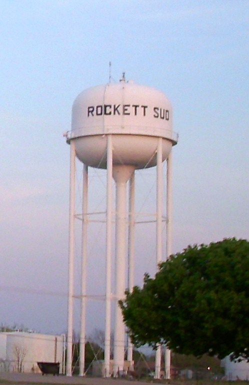 Rockett Special Utility District (SUD) Water Tower located along U.S. Highway 77 in Waxahachie, Texas (USA). Taken by User:Acntx on March 20, 2009.